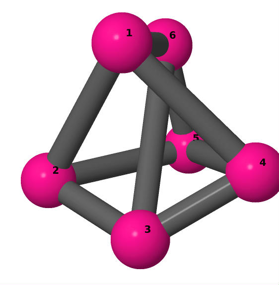 Simple cubic hamiltonian graph with 6 vertices. Vertex enumeration is to indicate a Hamiltonian cycle.